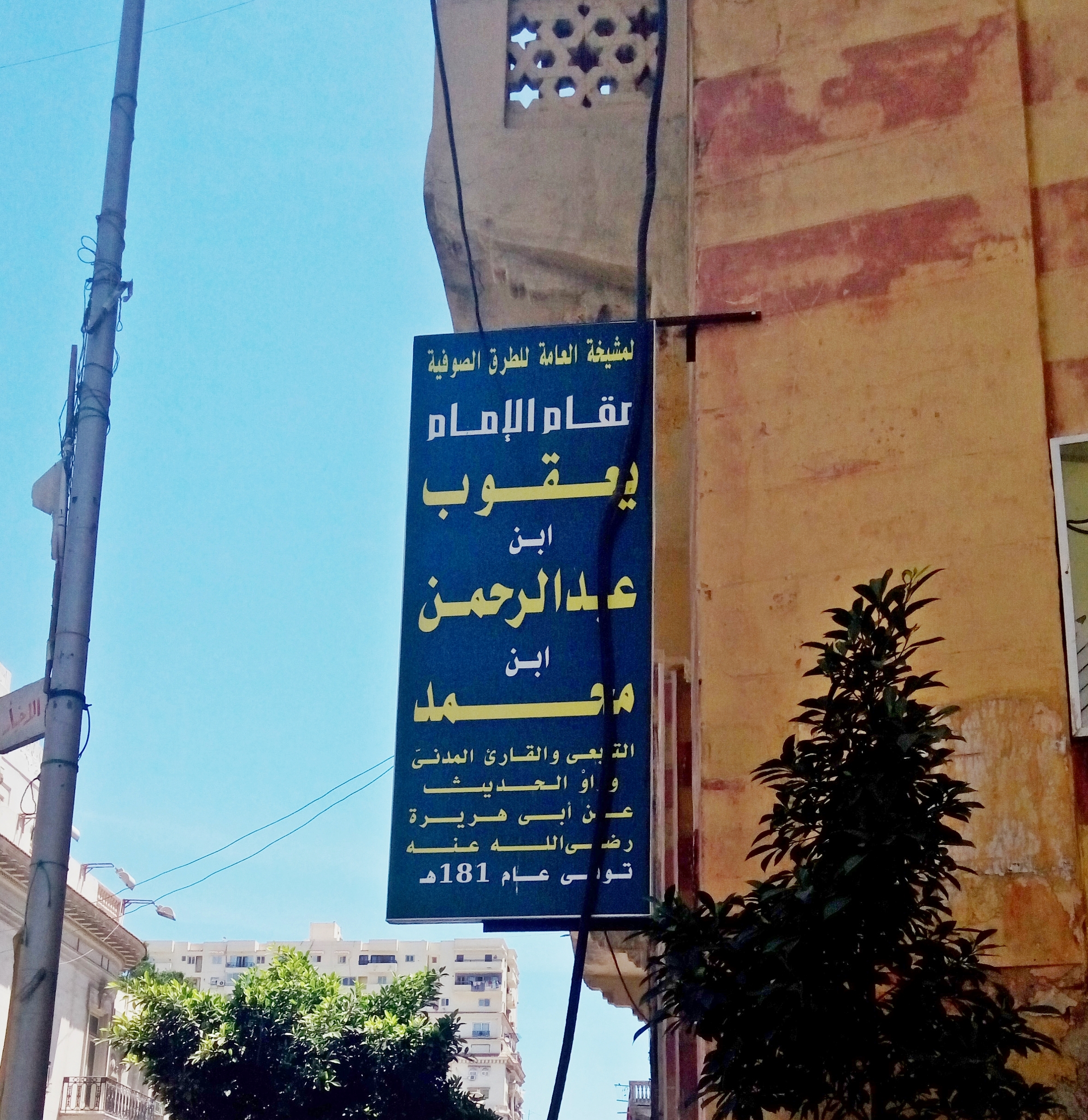 Mausoleum of Yacoub bin Abd al-Rahman